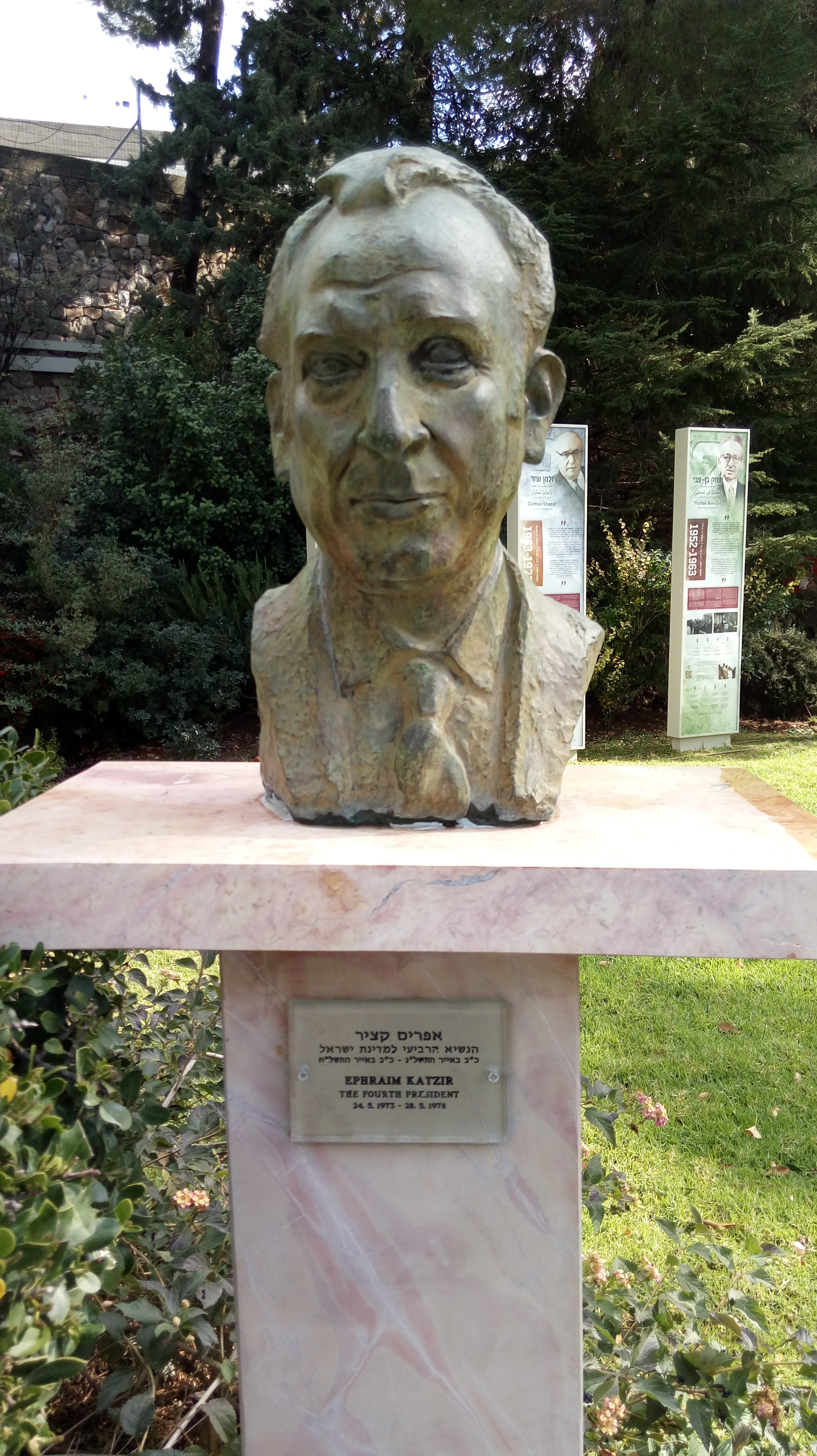 פסלו של אפרים קציר בבית הנשיא